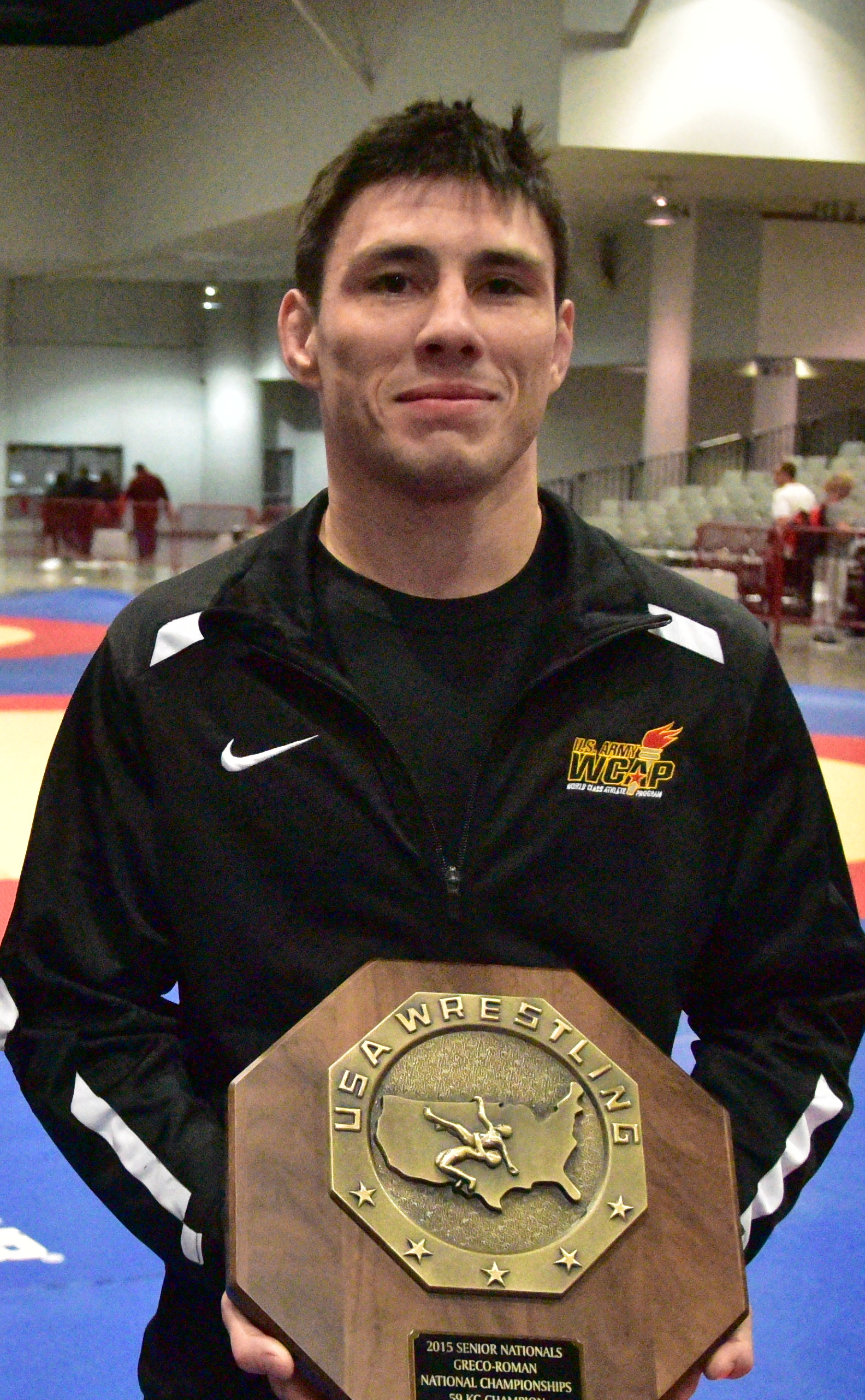 U.S. Army World Class Athlete Spc. Ildar Hafizov, Colorado Springs, Colo. bested teammate Sgt. Spenser Mango in the Greco-Roman 59 kg/130 lbs. weight class, securing his first-place trophy and advancing him to the Olympic trials. Both Soldier athletes contributed to a WCAP team win U.S. Senior Nationals/Trials Qualifier in Las Vegas, December 18-19, 2015. (U.S. Army IMCOM photo by Capt. Nate Garcia)